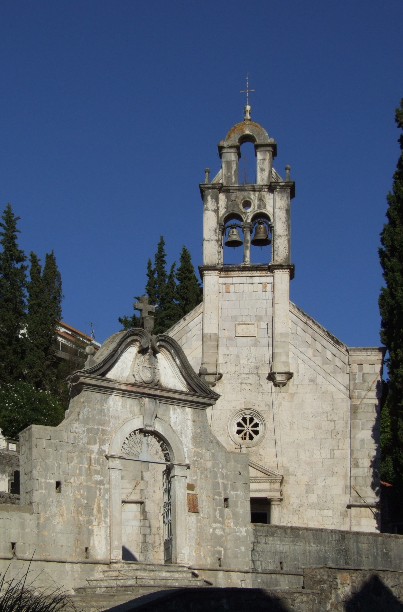 Herceg Novi, Montenegro - Church of the Ascention Day